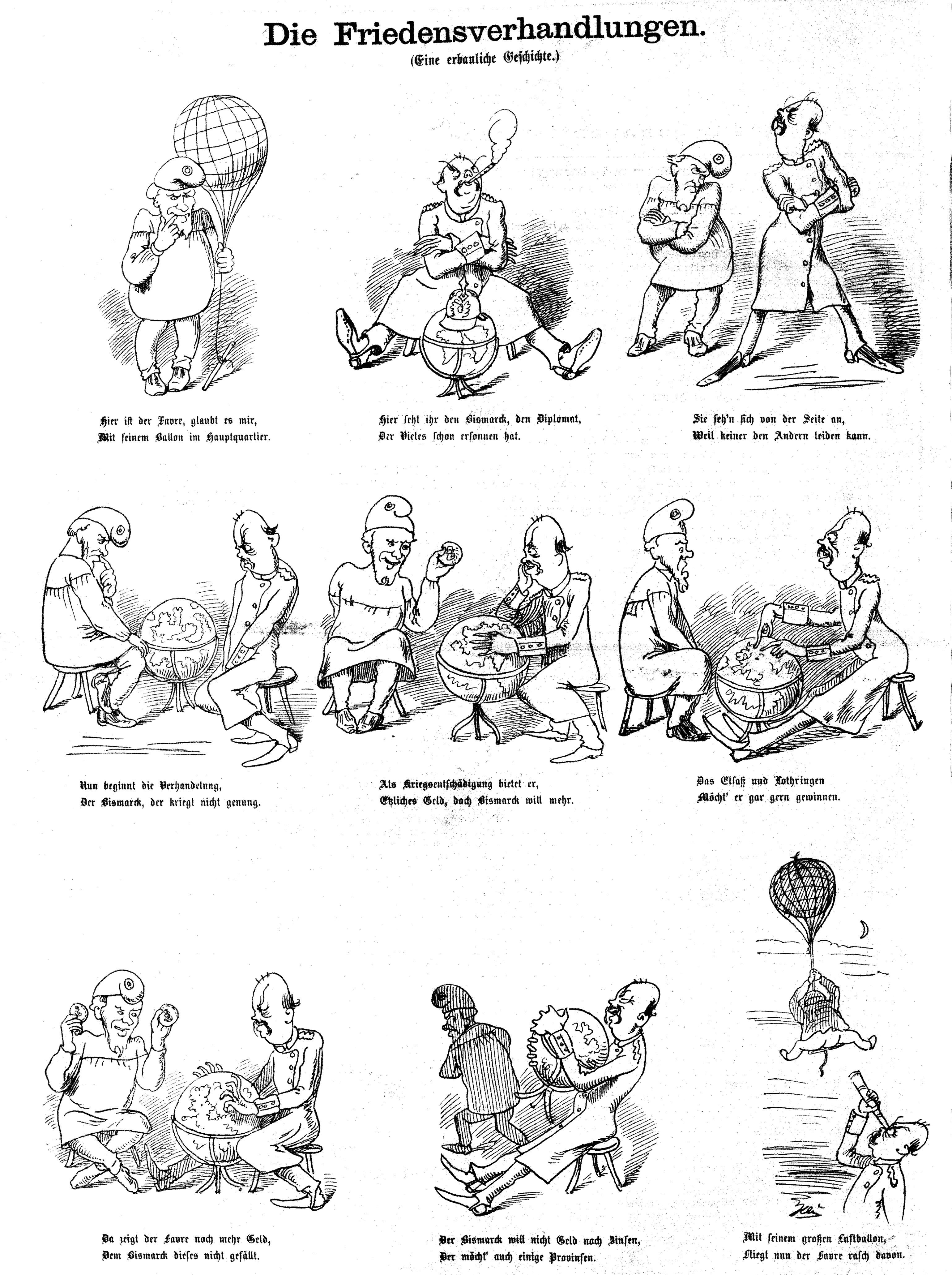 Comics depicting unsuccessful peace negotiations between Jules Favre and Otto von Bismarck during Franco-Prussian War. Favre offers money for peace, but Bismarck insists on annexing the border provinces of Alsace and Lorraine. As Favre is not (yet) ready to surrender them, there is no agreement.